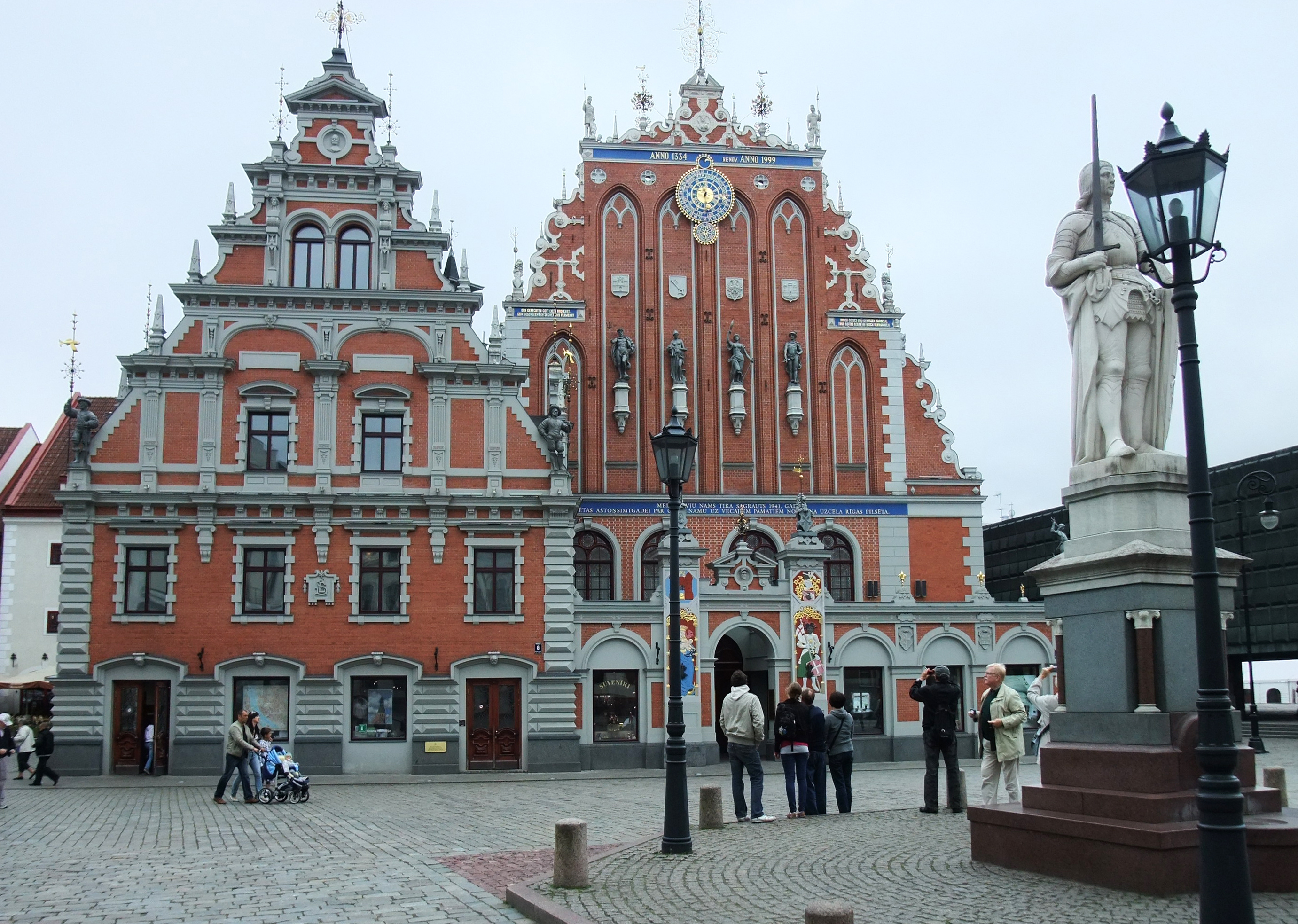 House of Blackheads in Riga, Latvia